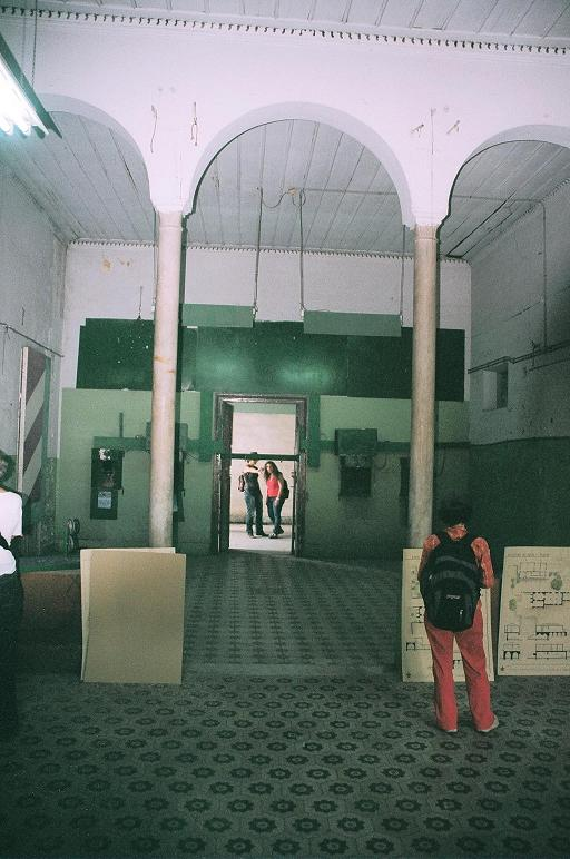 El Azi House